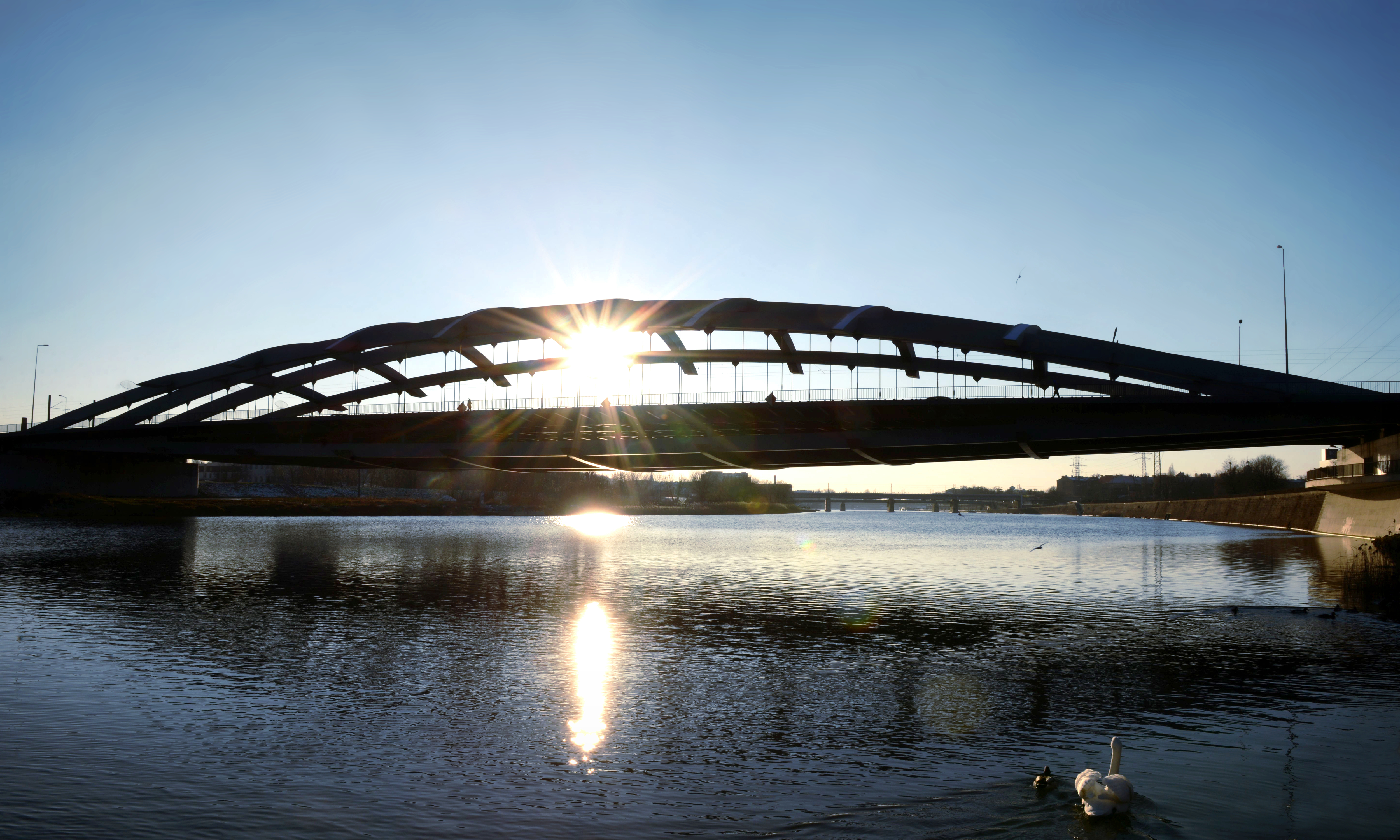 Most Kotlarski Mostostal Kraków